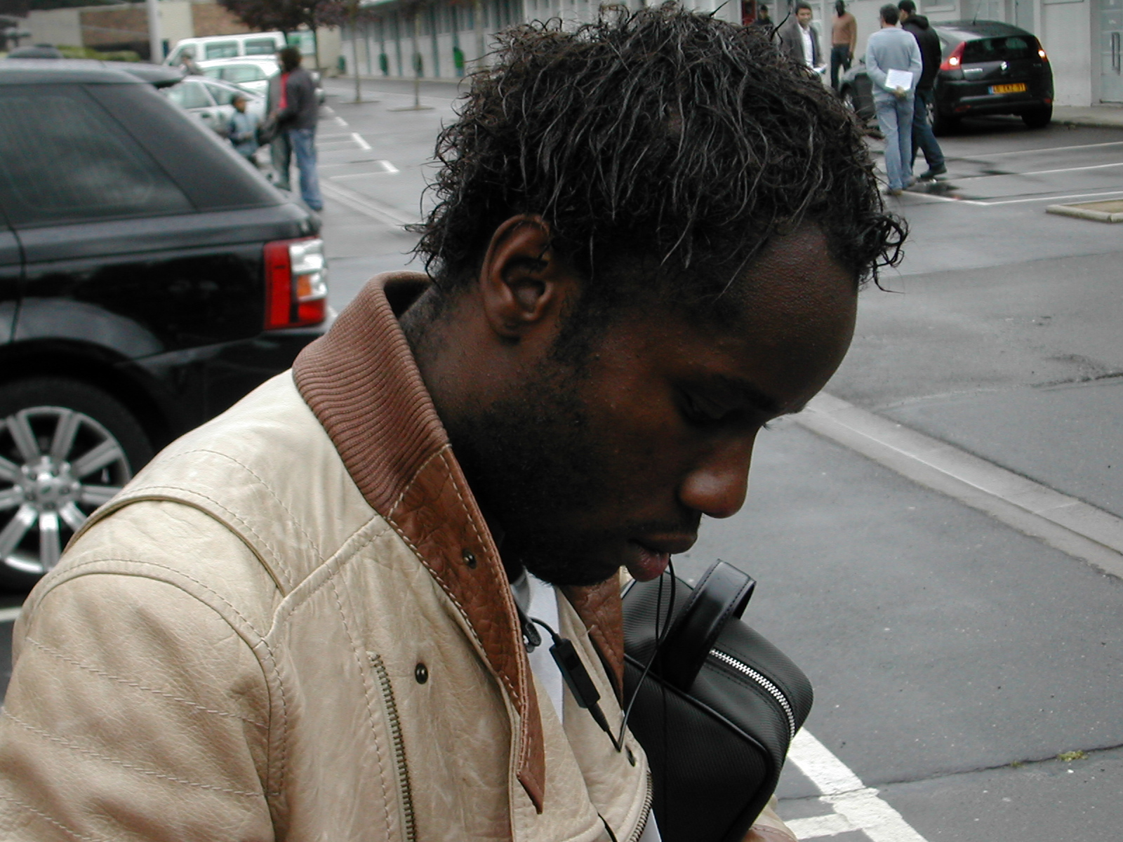 Peguy Luyindula in the Camp des Loges